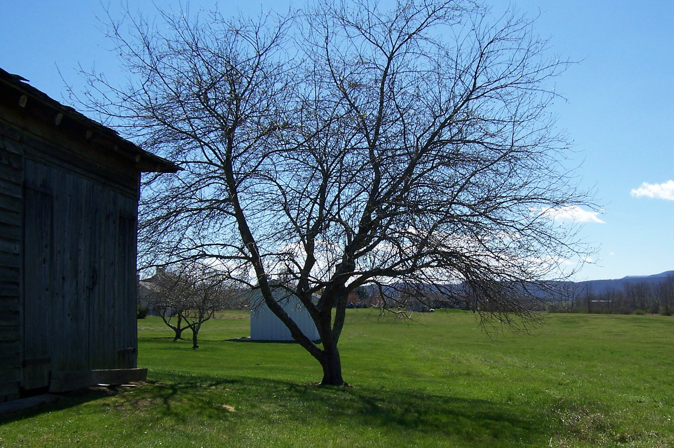 Tree behind the barn at the Pearl Buck Birthplace Museum in Hillsboro, WV